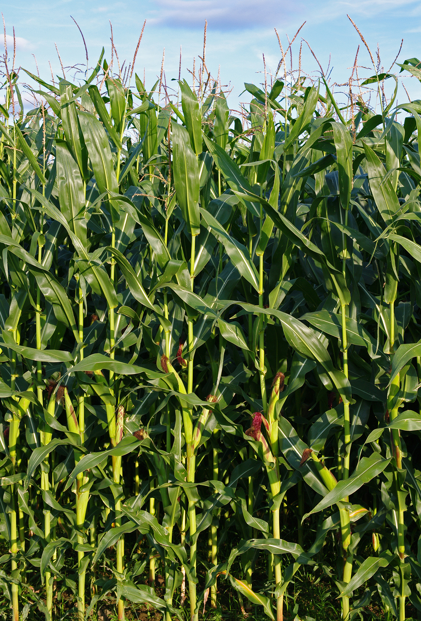 Edge of a field of Corn or Maize, Zea mays; north-eastern Lower Saxony, Germany. The plants are ± full-grown but still not quite ready for harvest. The high density indicates that the primary purpose here is a large yield of biomass (not fruits/corn). In the district of Lüchow-Dannenberg, in 2011 about 8557 hectares of maize were grown – more than 15 % of the local agricultural land, with an average yield of 44 t/ha. A third of which was used as forage for livestock, the big rest as a raw material for fermentation in biogas plants. Corn for direct human consumption apparently plays no role in that region.